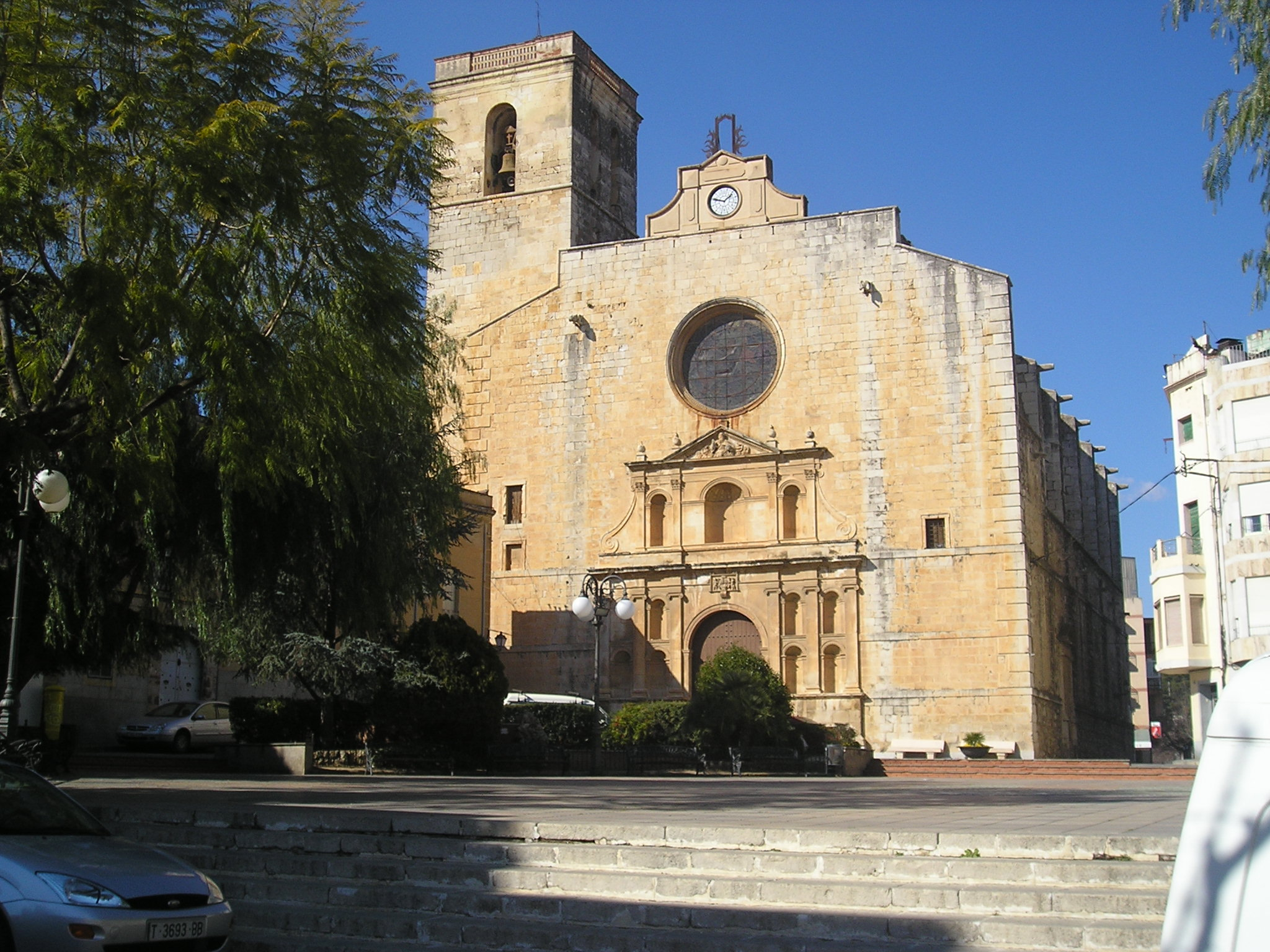 Saint James church and Church Square in Riudoms